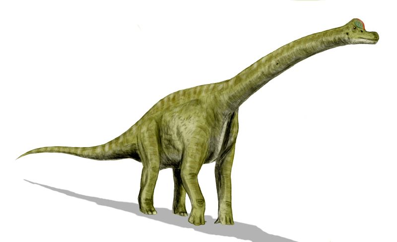 Brachiosaurus altithorax, a sauropod from the Late Jurassic of North America, pencil drawing